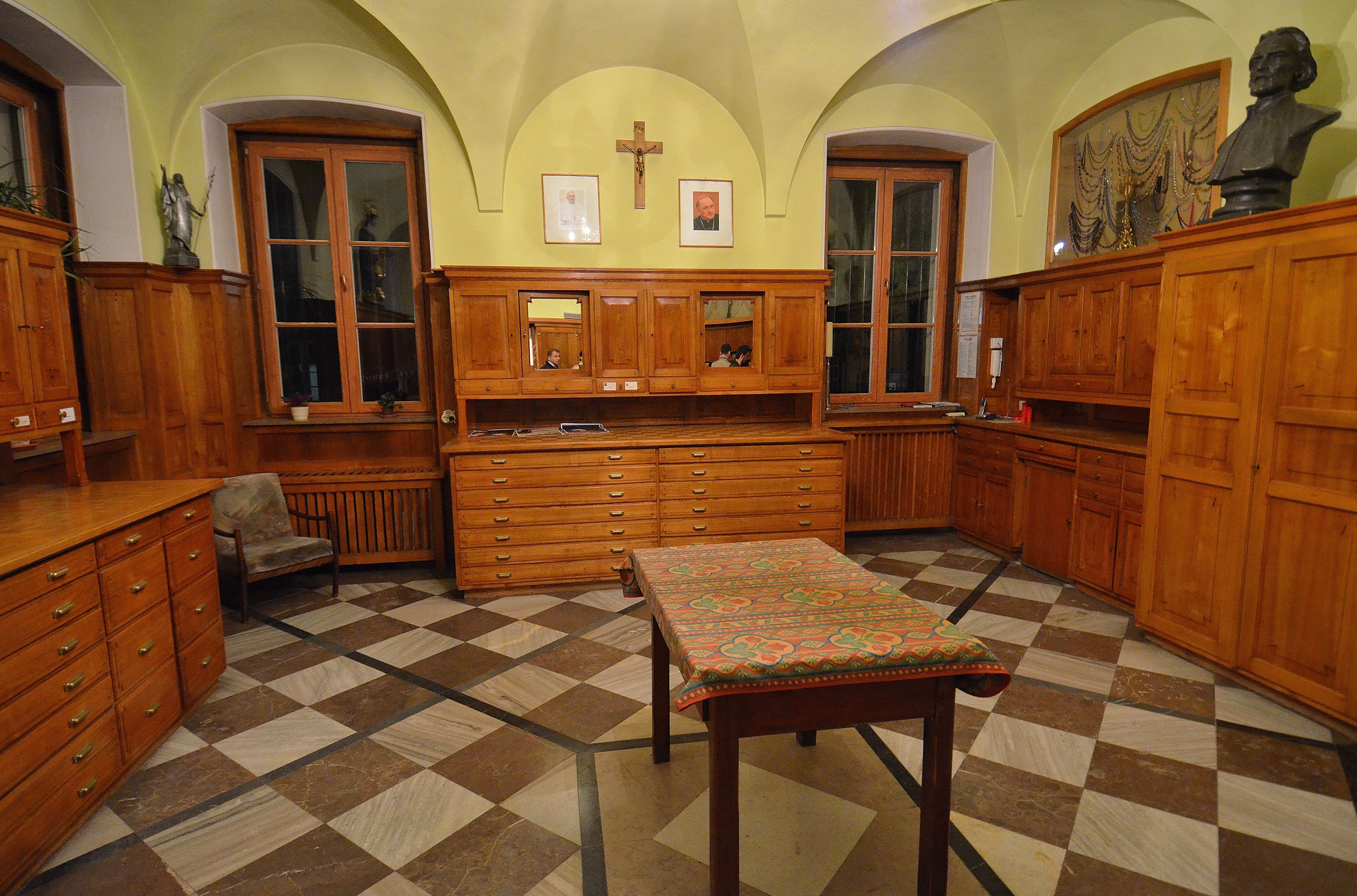 Sacristy in the jesuit (Our Lady of Graces) church at 10 Świętojańska Street in Warsaw